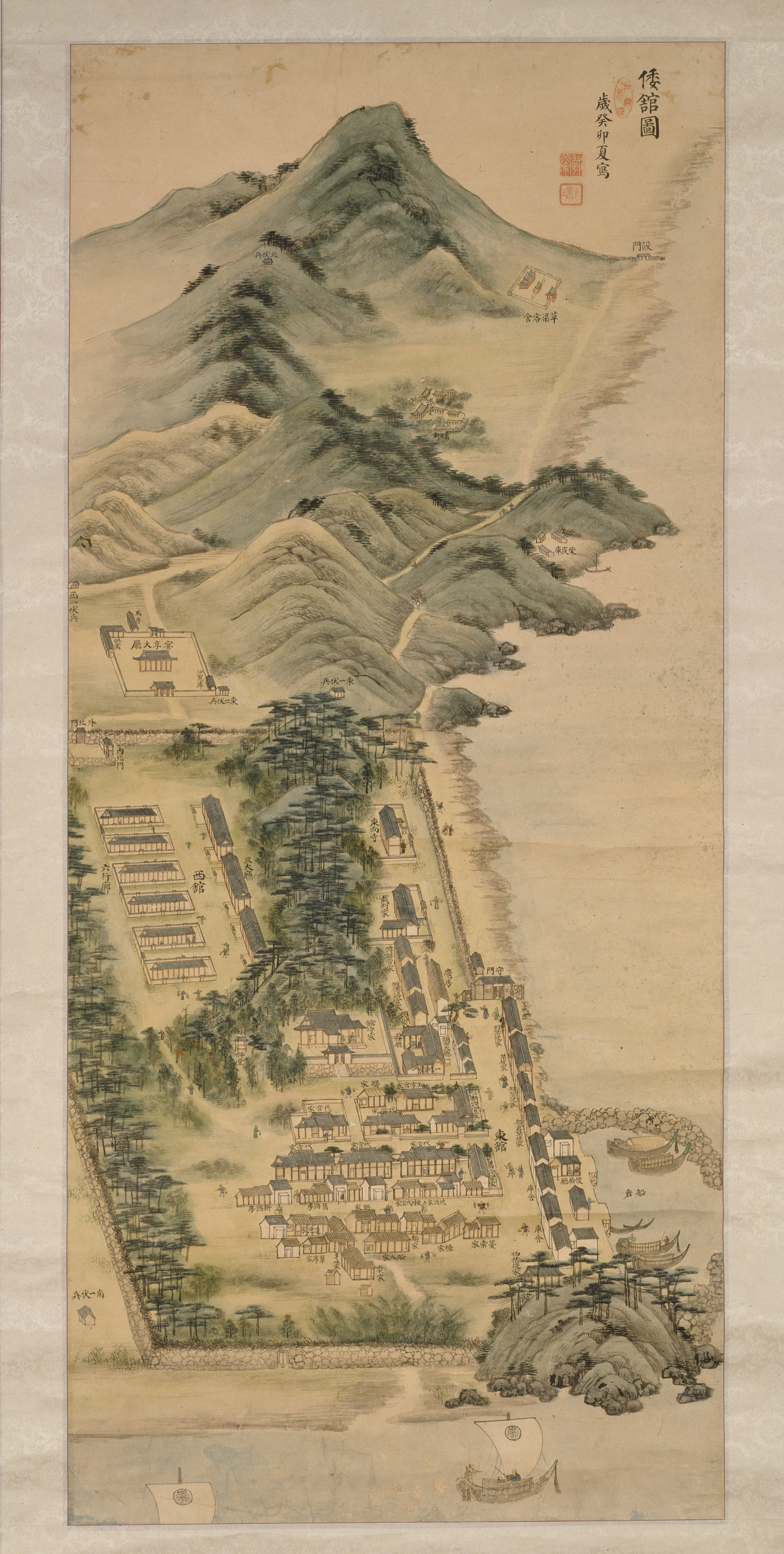 Choiryang wegwan jeongyeong is a landscape drawing Choiryang wegwan, a trade port between Joseon and Japan, in the 18th century.